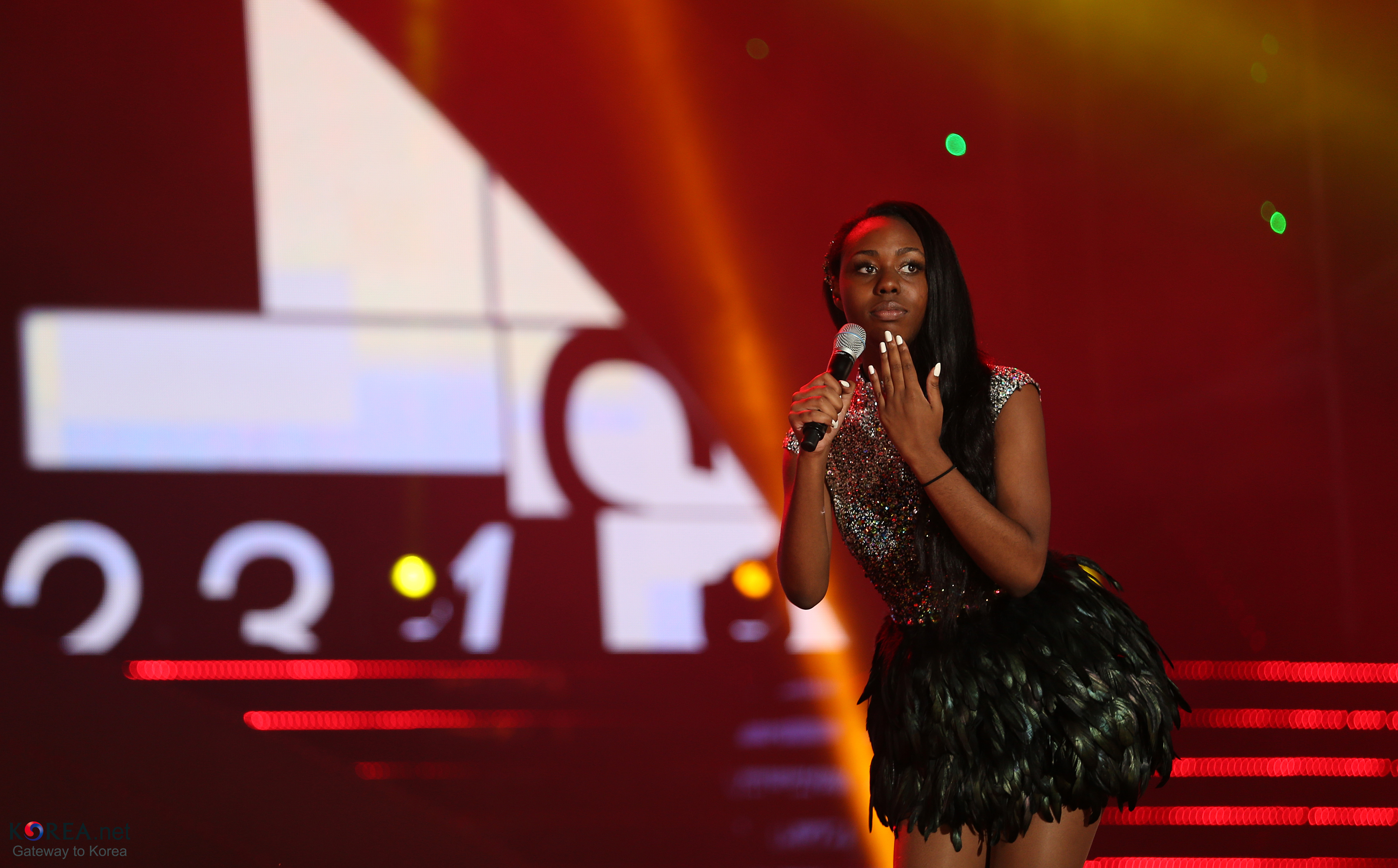 2013 K-POP World Festival in Changwon October 20, 2013 Changwon-si, Gyengsangnam-do Related Articles Cheong Wa Dae K-Pop World Festival unites global fans -English K-Pop World Festival unites global fans -中文 “2013 K-POP世界庆典” 用K-POP连结全世界 -Vietnamese Cả thế giới hội tụ tại “K-pop World Festival 2013” -日本語 「Kポップワールド・フェスティバル2013」、Kポップで世界が一つに -Deutsch „K-Pop World Festival” bringt internationale Fans zusammen -Francais Un festival mondial de la K-Pop 2013 de haute volée -Russian K-Pop World Festival объединяет фанатов со всего мира -Arabic المهرجان العالمي للبوب الكوري يوحد الجماهي Ministry of Culture, Sports and Tourism Korean Culture and Information Service ( Jeon Han 2013 제3회 K-POP 월드페스티벌 2013-10-20 경상남도, 창원시 문화체육관광부 해외문화홍보원 코리아넷 전한